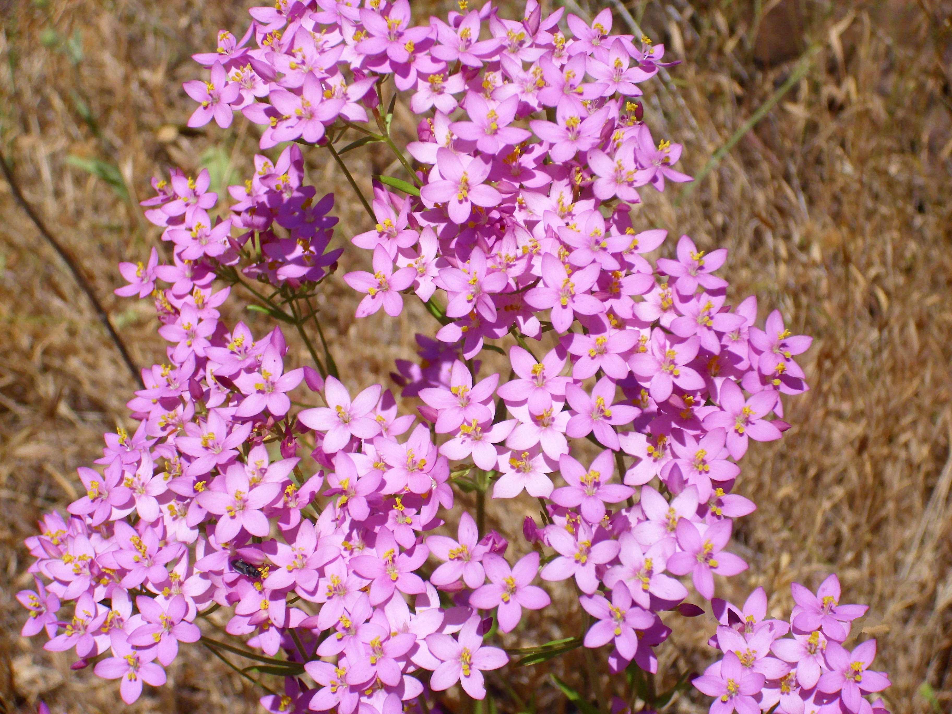 Centaurium erythraea close up, Sierra Madrona, Spain